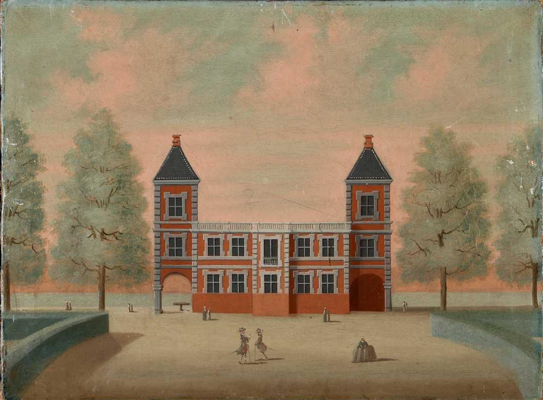 The Hermitage in Tosenborg Park in Copenhagen, Denmark